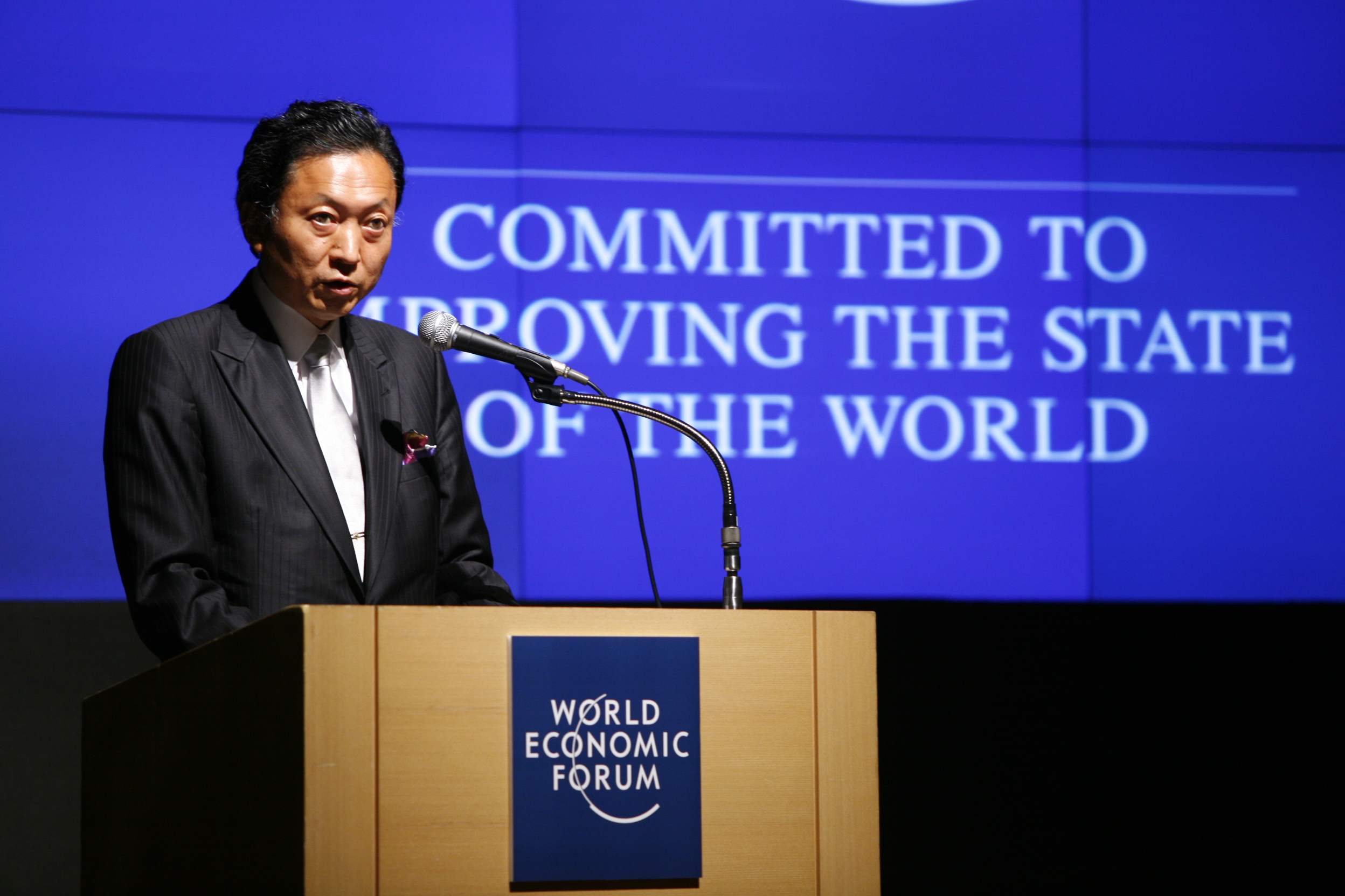 Yukio Hatoyama, Member of the House of Representatives, addressed at the World Economic Forum Japan Meeting 2009 in Shinjuku Ward, Tōkyō Metropolis, on September 4, 2009.